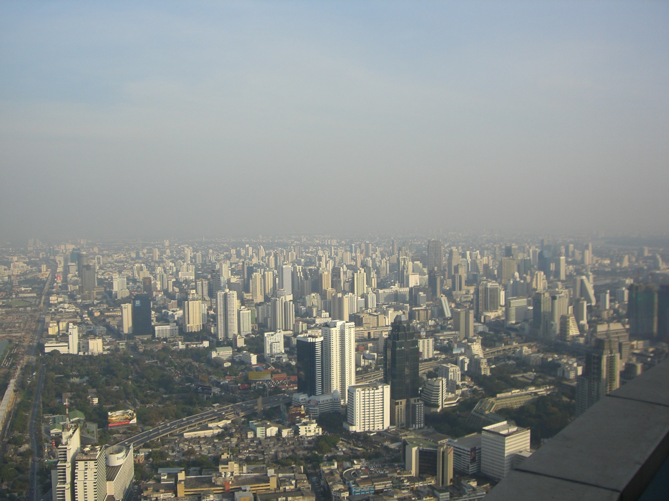 Bangkok viewed from Baiyoke Tower II, Thailand